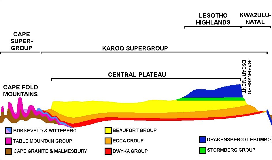 An approximate SW-NE geological cross section through South Africa, with the Cape Peninsula (with Table Mountain) on left, and St Lucia Bay on the right. Diagrammatic and not to scale.